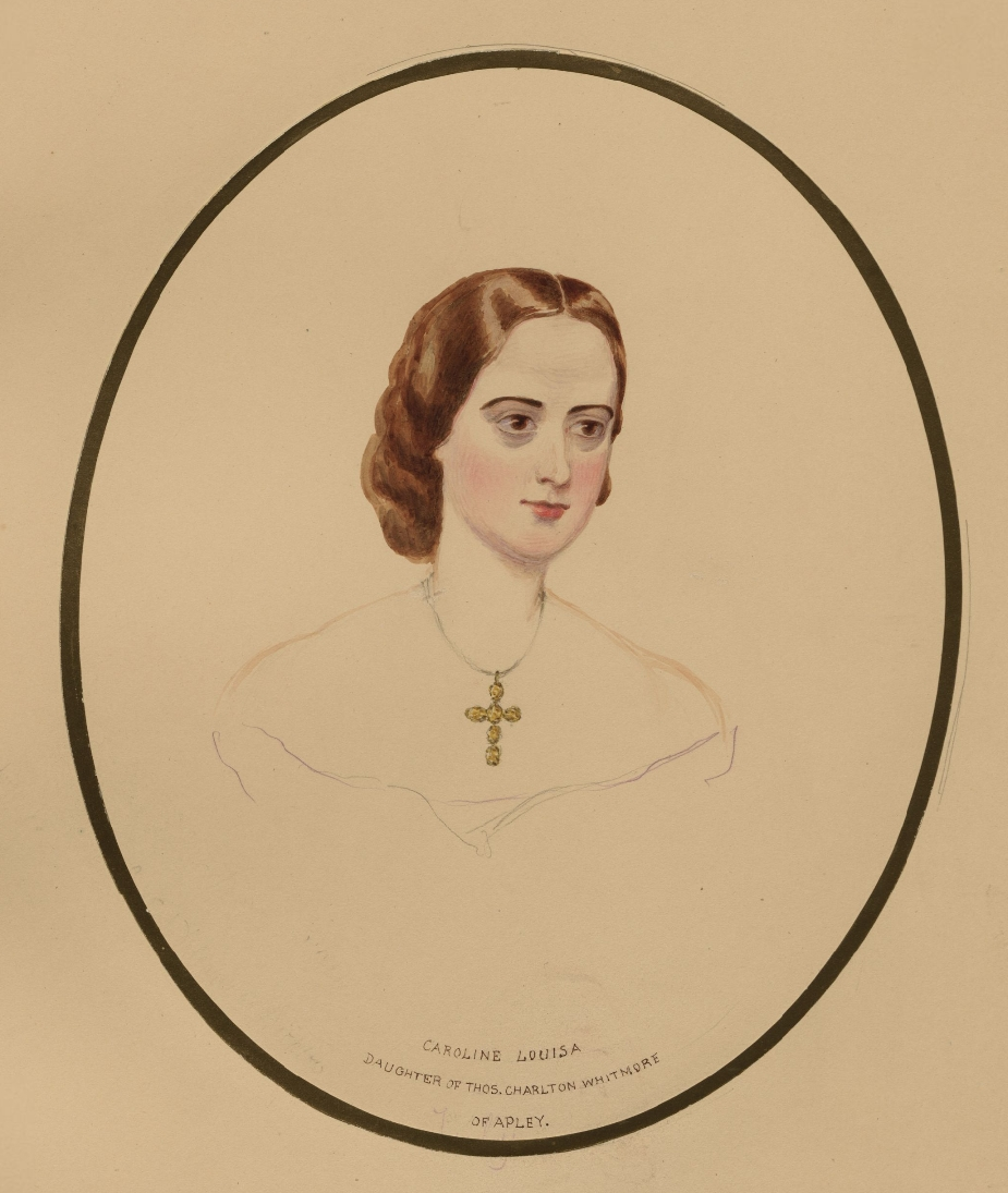 Unfinished portraits of Shropshire Ladies by Lady Mary Leighton. Caroline Louisa Whitmore, Apley